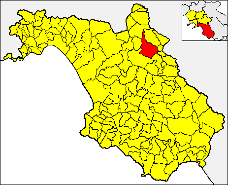 Locator map of the municipality of Buccino (red) within the Province of Salerno